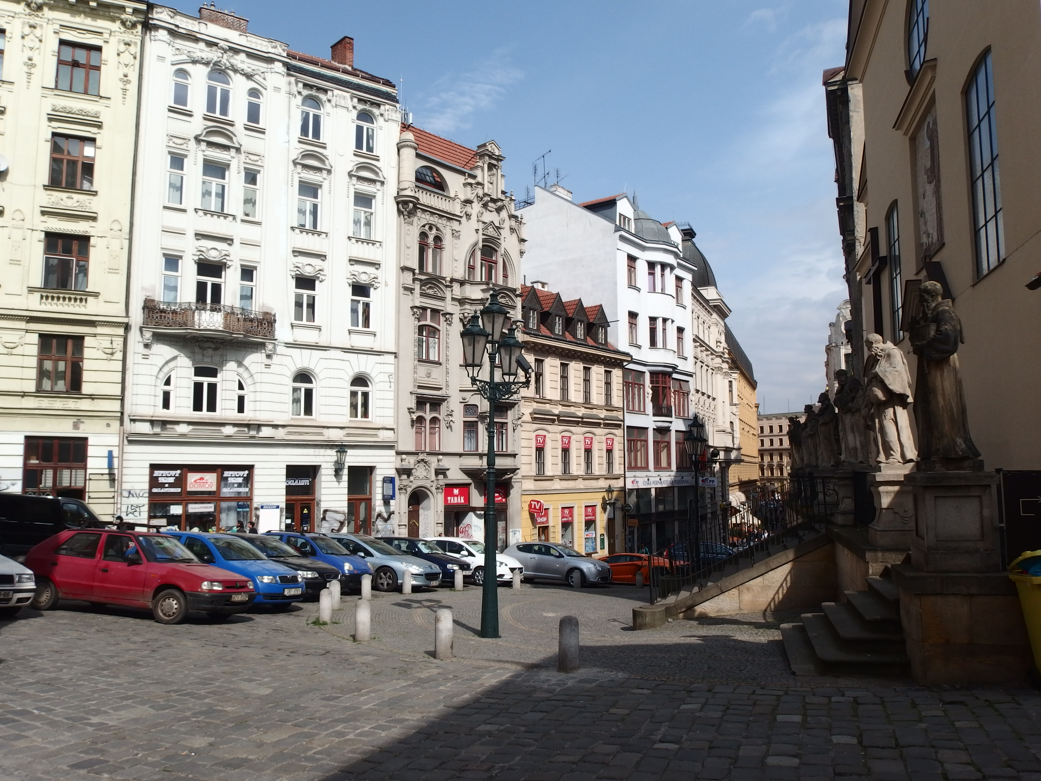 Brno, Czech Republic, Kapucínské náměstí square.